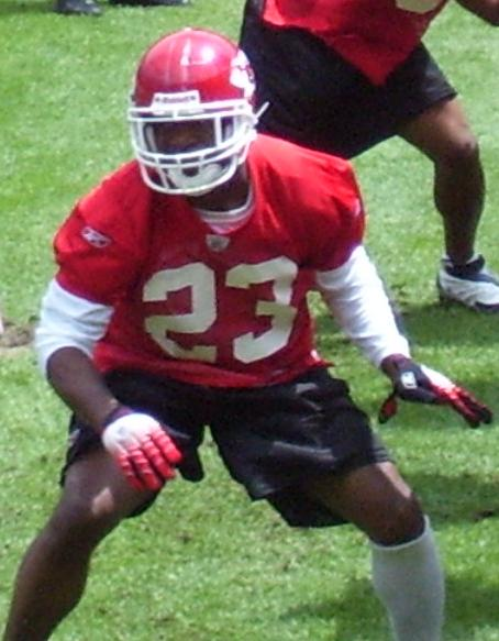 Patrick Surtain, cornerback for the Kansas City Chiefs.